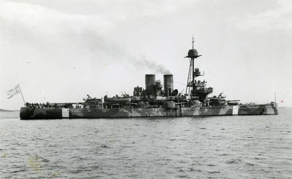 The Swedish battleship HMS Tapperheten.